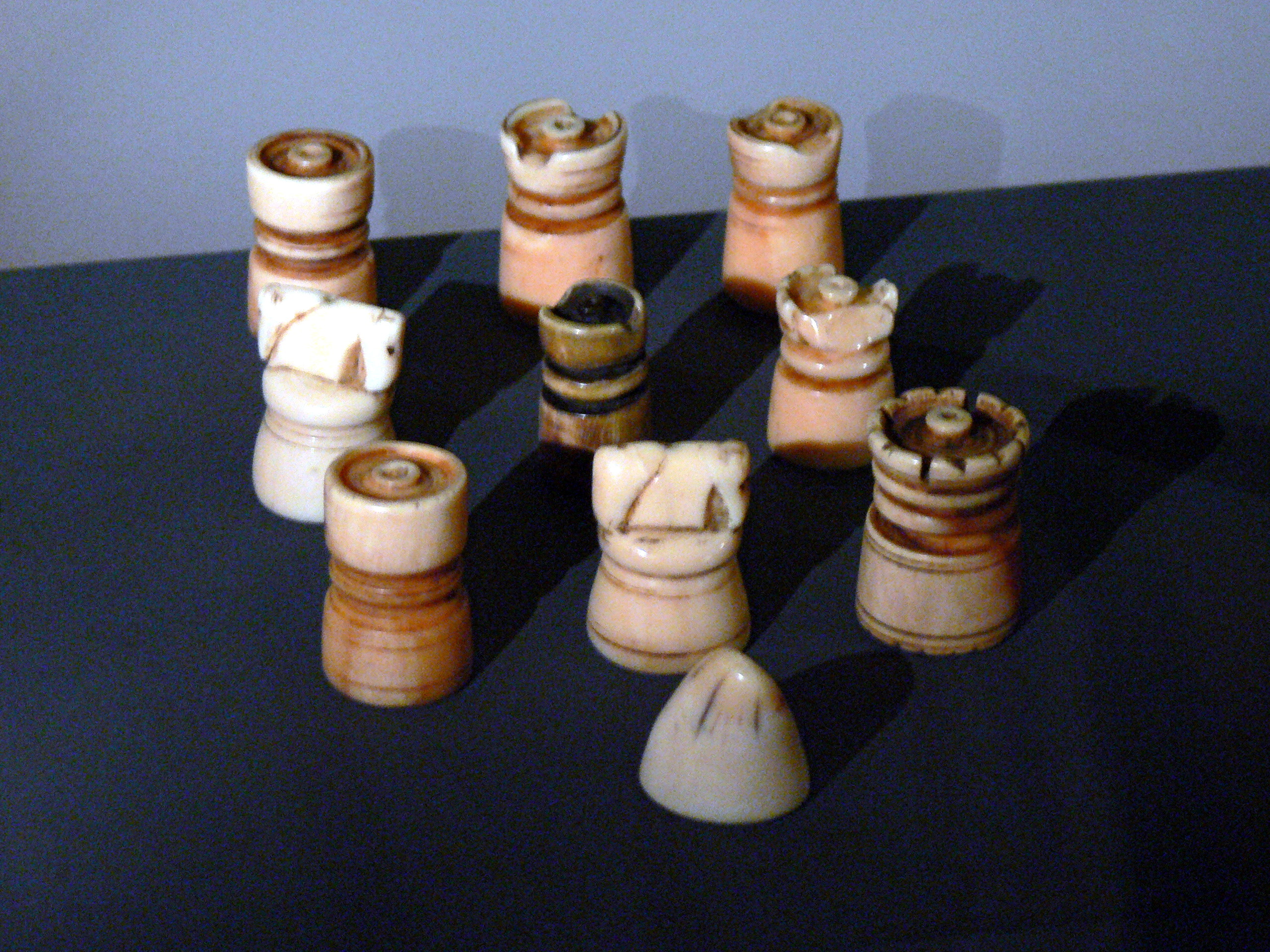 National Museum of Iceland, Reykjavik. Medieval chess pieces.